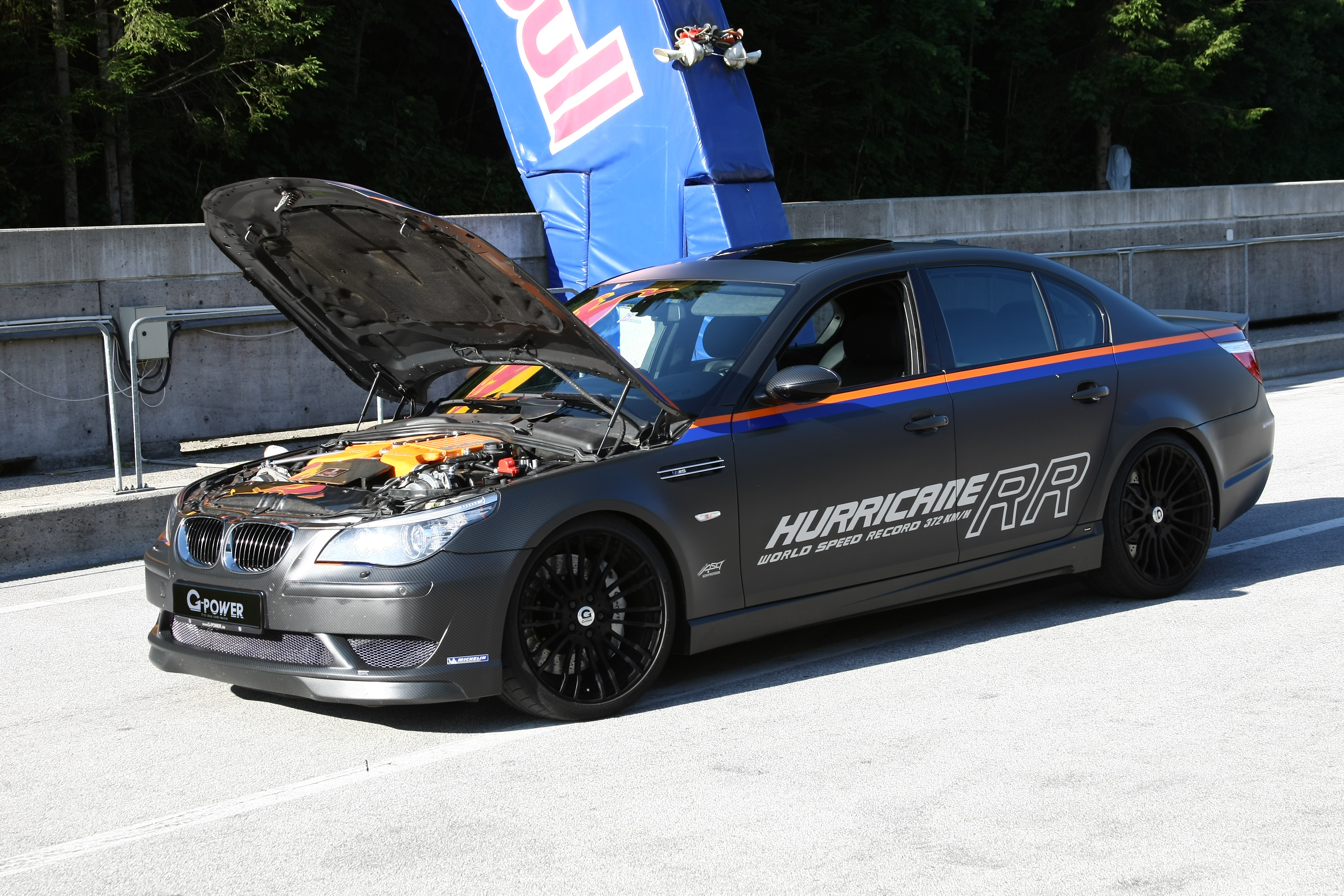 The 814 hp strong G-POWER M5 HURRICANE RR with a top speed of 232,6 mp/h is the fastest sedan in the world.